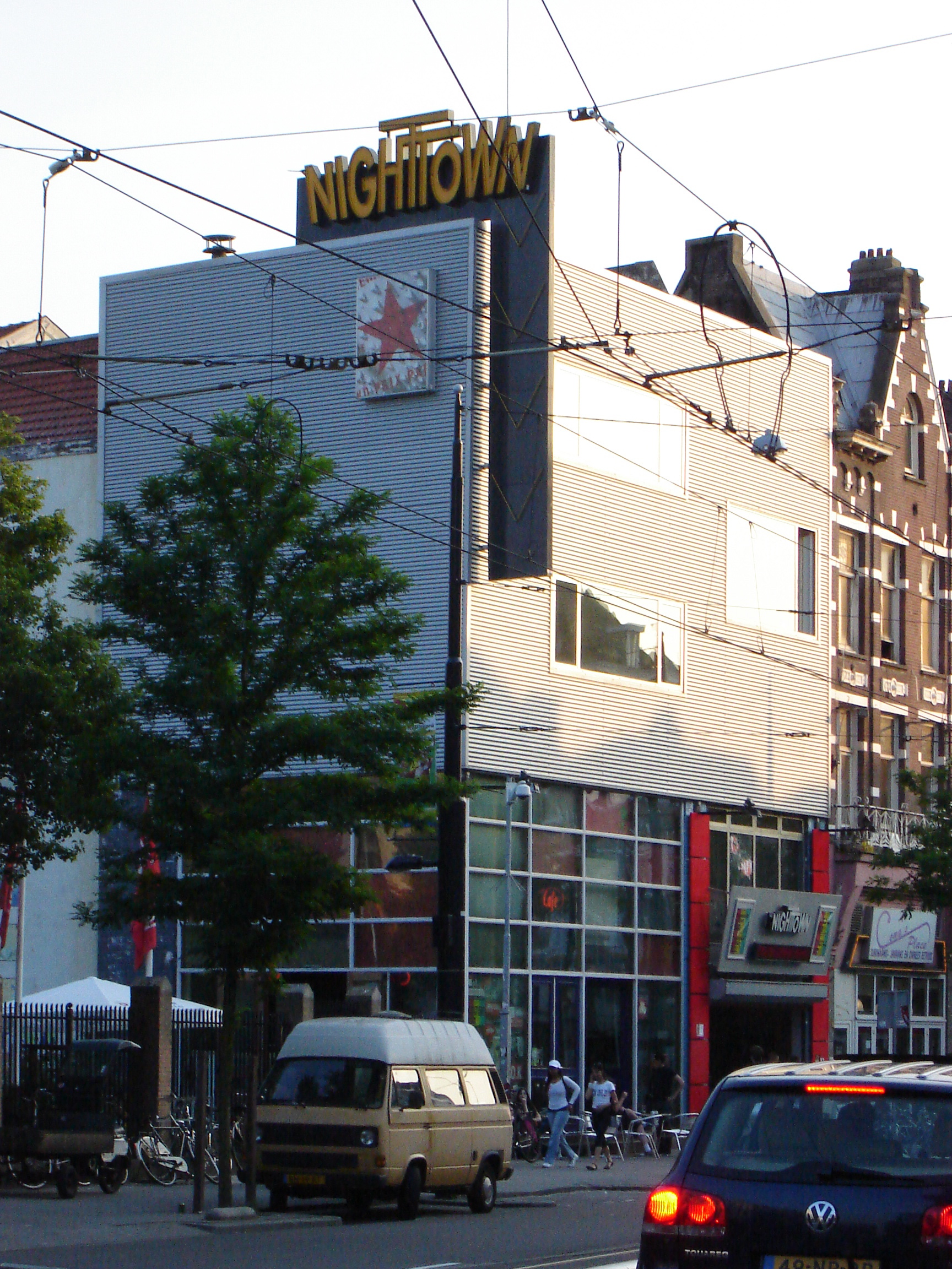 Nighttown Rotterdam